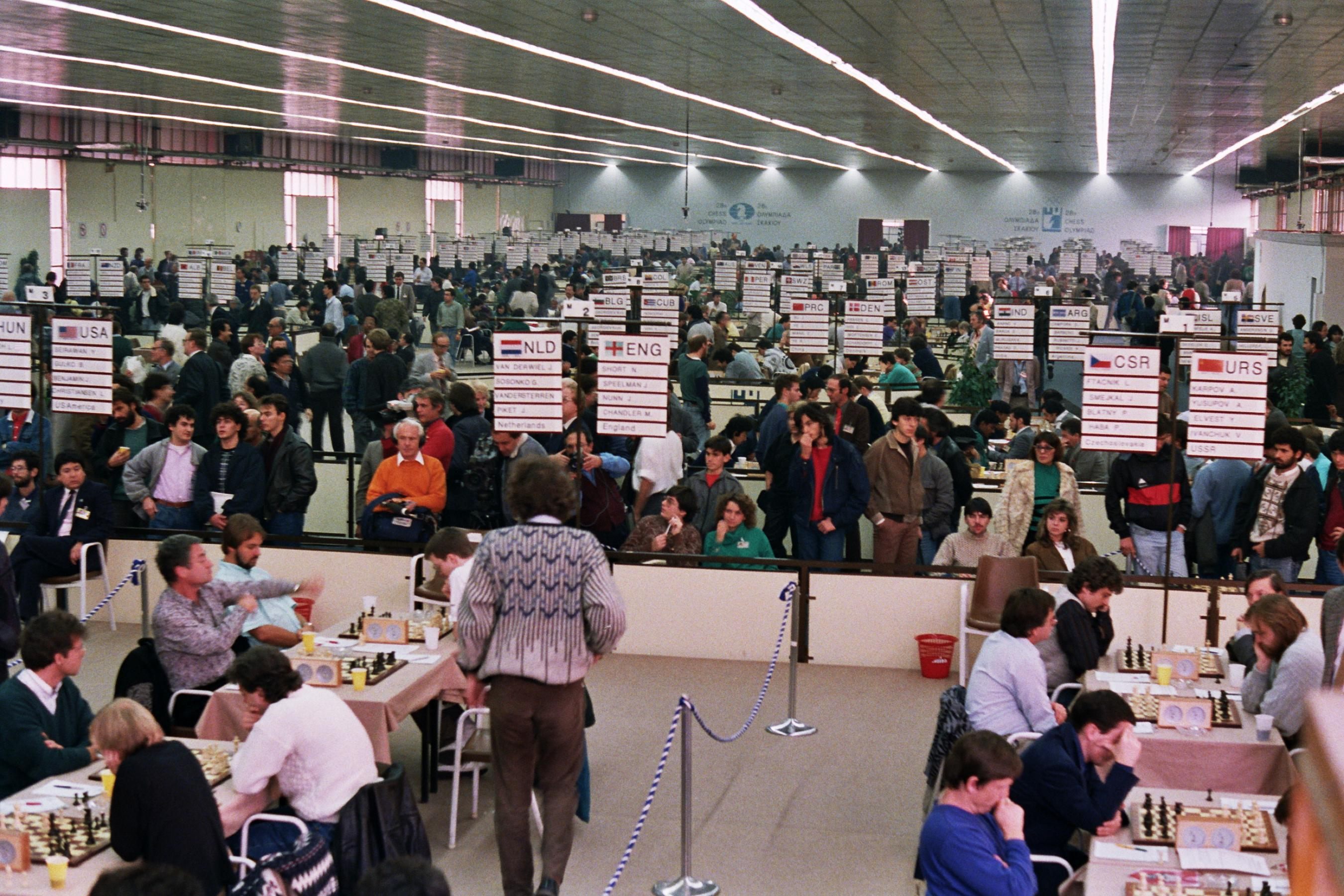 Hall of the tournament, Chess Olympiad 1988 in Thessaloniki, Photographer Gerhard Hund.